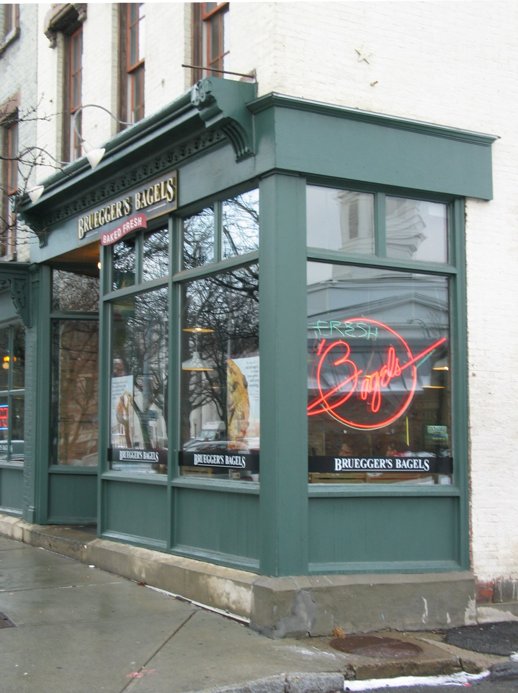 The original Troy, New York Bruegger's Bagels on the corner of Congress and Franklin street. Taken January 5, 2006.